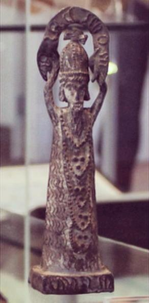 Billies and Charlies. In the late 19th century, two London dockworkers, called William (Billy) Smith and Charles (Charlie) Eaton, made crude lead forgeries of 800-year-old Medieval objects. The wrote the date '1021' on one of the forgeries in Arabic numerals, so that collectors would think it was very old and want to buy it. However, writing the date in Arabic numerals revealed that the objects were forgeries because in the Middle Ages people dated events to the year of the reign of a particular king. A number of collectors and museums bought what are now known as 'Billies and Charlies' in belief that they were pieces of Medieval archaeology. This is a hollow lead figure on a square base. Probably a bishop, wearing a long decorated gown. Both arms are raised above the head, holding an inscription. A "Billy and Charlie" fake. Acc. 1981.1150 (acquired from the Wellcome Collection) (Ancient Worlds, The Manchester Museum)